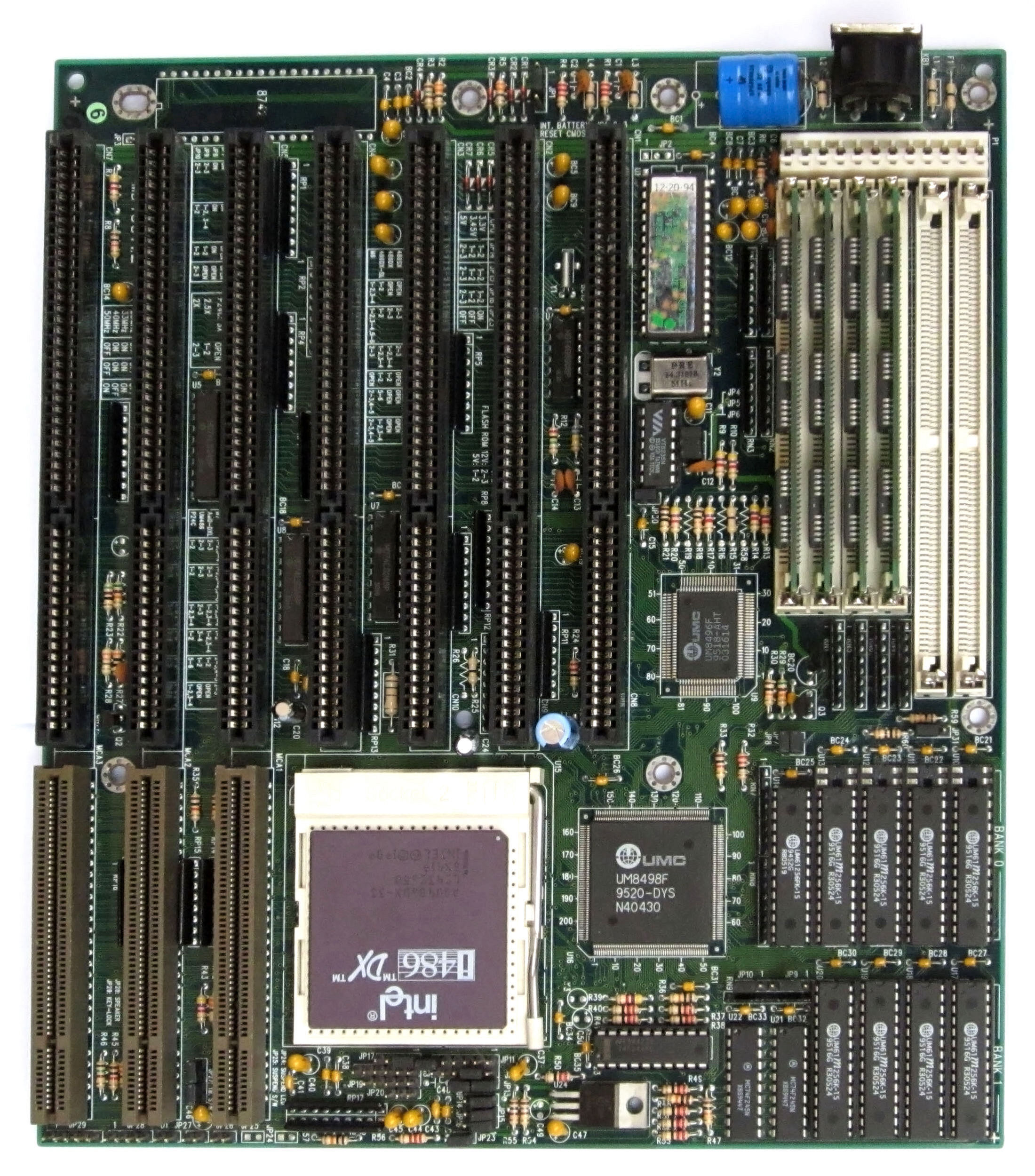 486 Baby AT VLB motherboard with Intel i486TMDX/33MHz CPU and Award 486DX BIOS.